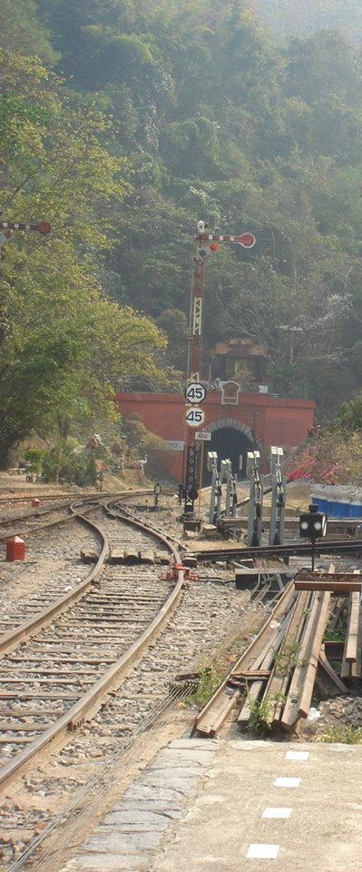 Khun Tan Tunnel is the longest of Thailand's railway tunnels.